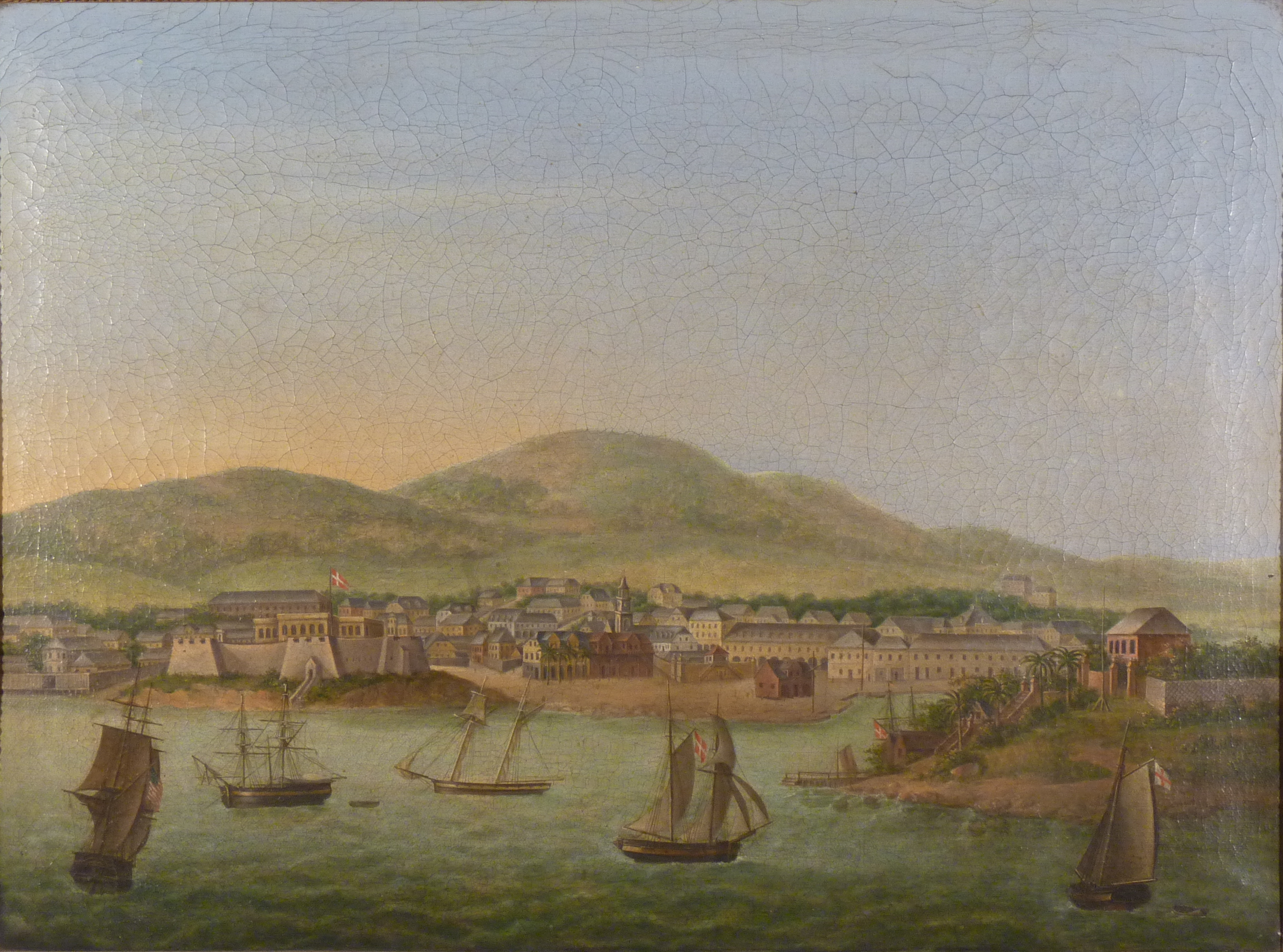 Hans Peter Thorsøe was a Danish sea captain who also dabbled in painting. He was at the Danish West Indies a number of times, including in 1825, resulting in this painting. Cropped from file in mfs.dk (see source). The original file is labelled CC-BY-NC-SA to "M/S Museet for Søfart" (Danish Maritime Museum).